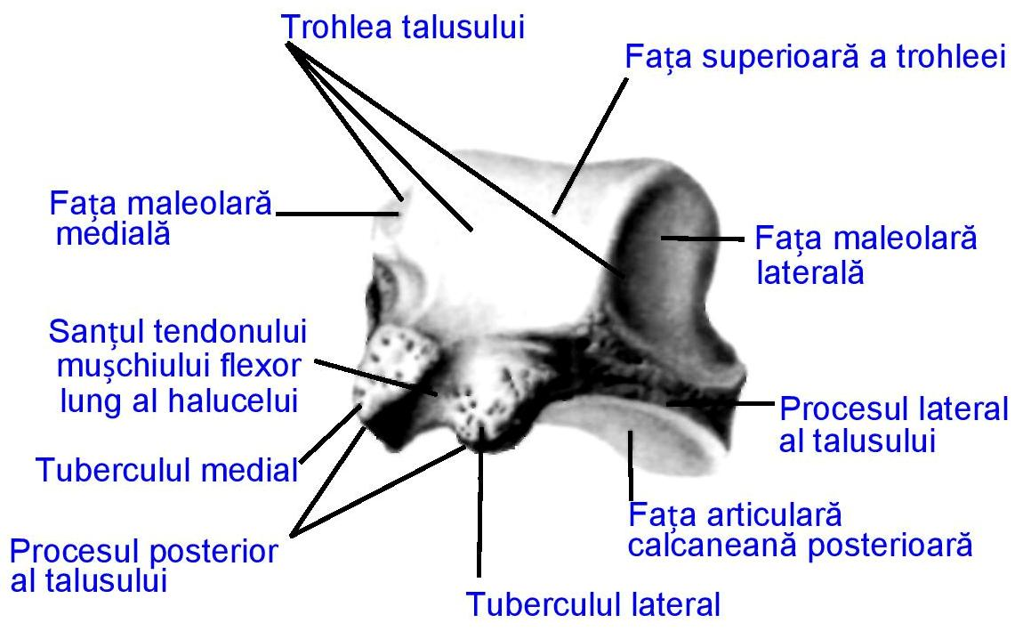 Talus, posterior face